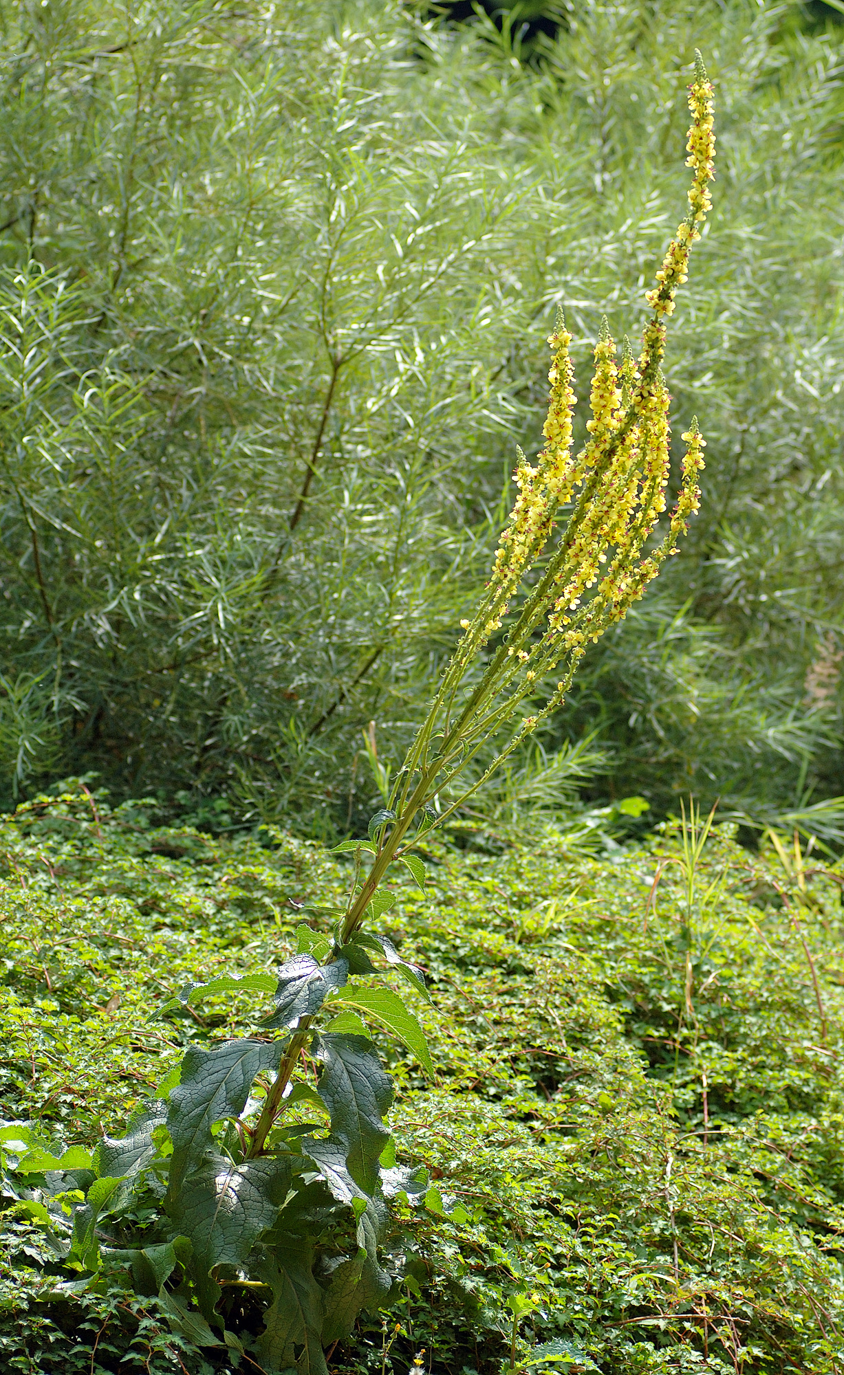 This image shows a Dark Mullein (Verbascum nigrum).